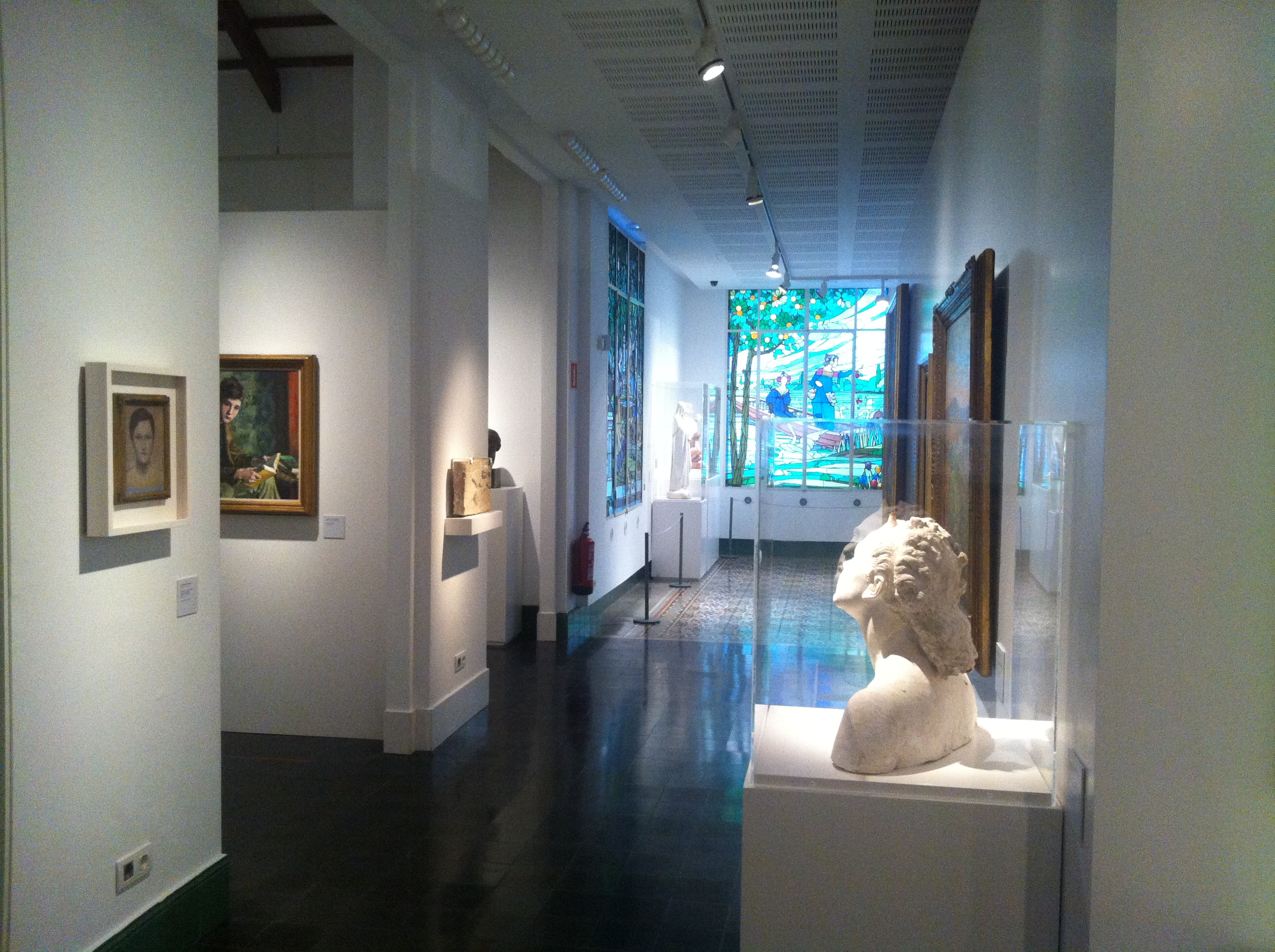 Exhibit rooms in the Museu d'Art de Cerdanyola